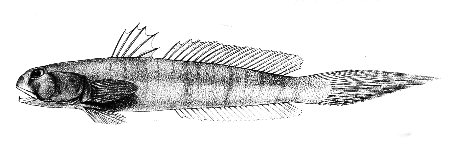 The species names / identity need verification. The original plates showed the fishes facing right and have been flipped here. Apocryptes bato